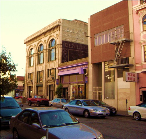 Photo shows Lincoln University building next to Oaksterdam Gift Shop in Oakland.Ferns Hotel sign is for a single room occupancy hotel there.